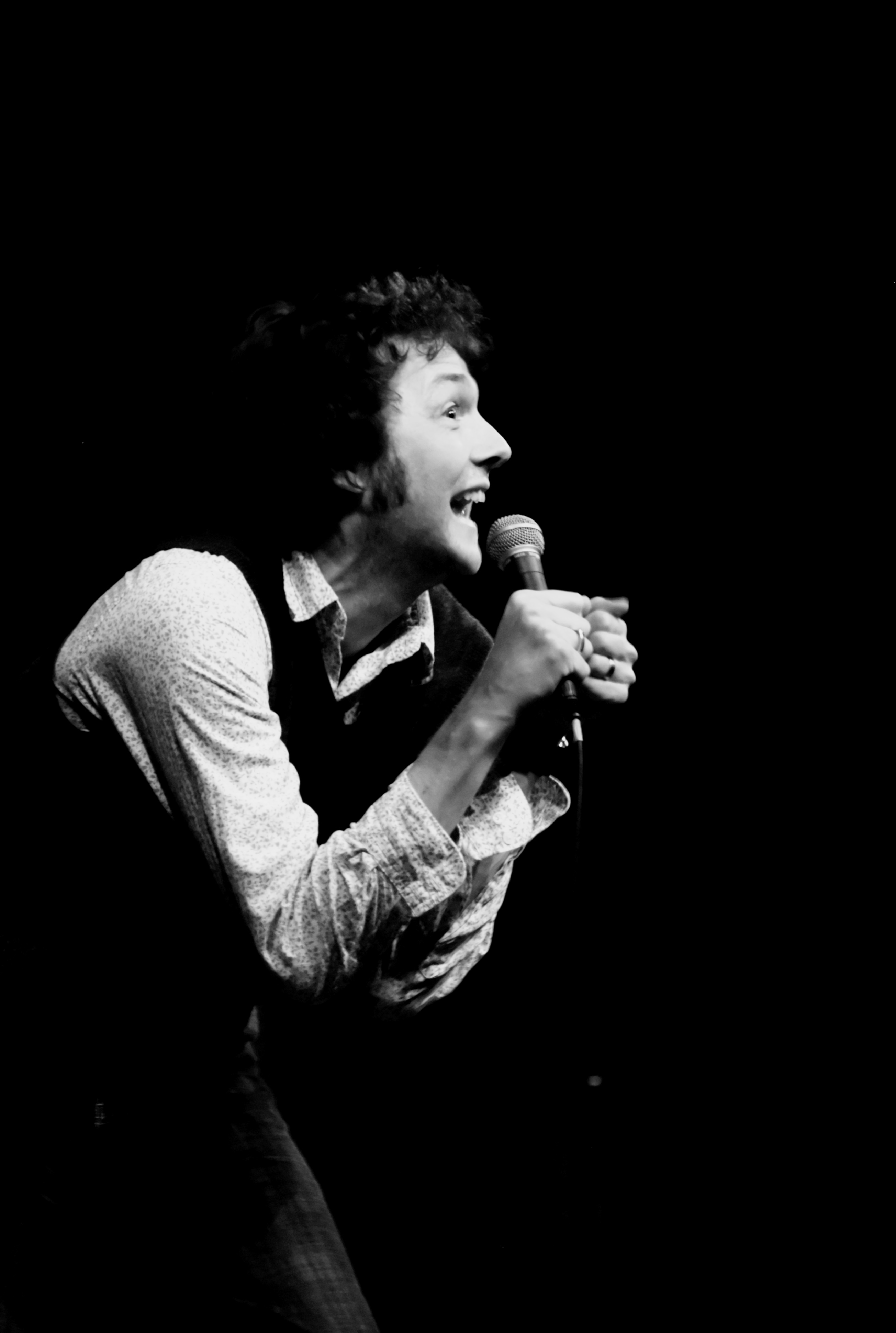 Chris Addison performs live at the Resofit benefit for Resonance FM